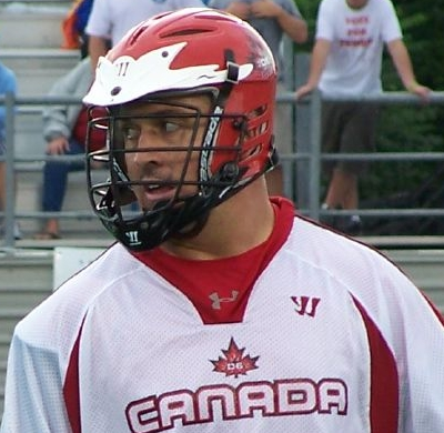 Gary Gait during the 2006 World Lacrosse Championship Title Game (Canada vs USA) that Canada won